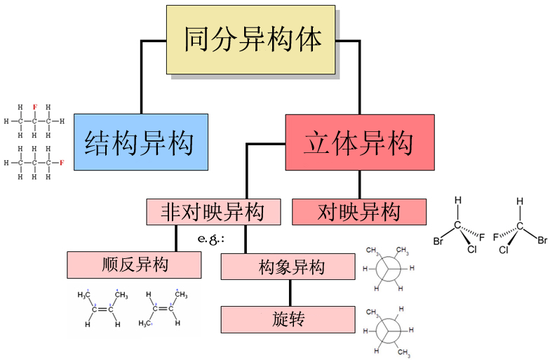 The structure of isomerism